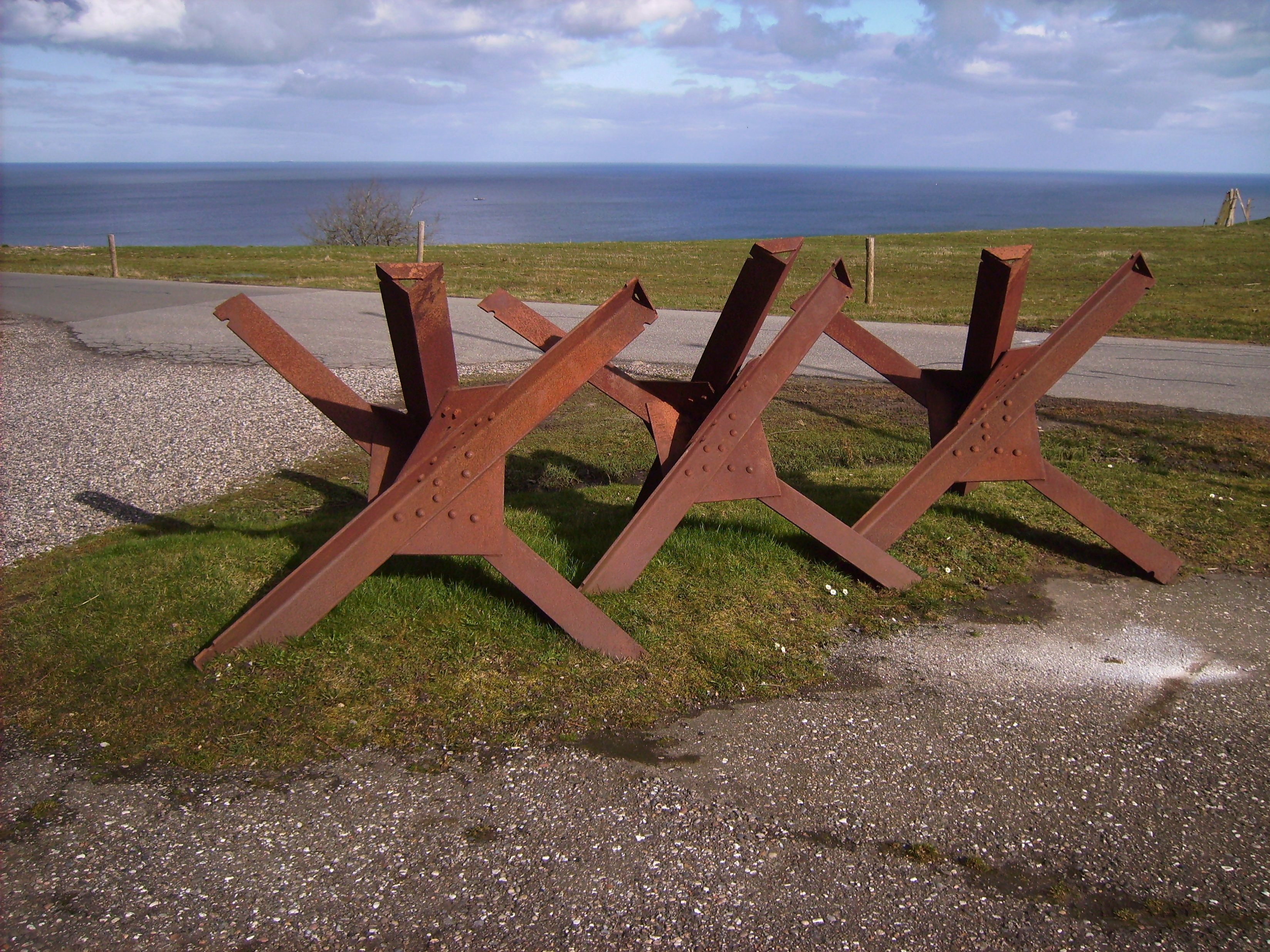 “Bangsbo Fort” in Frederikshavn in northeast Denmark, with German bunkers from World War II, built during the German occupation of Denmark between 1940 and 45